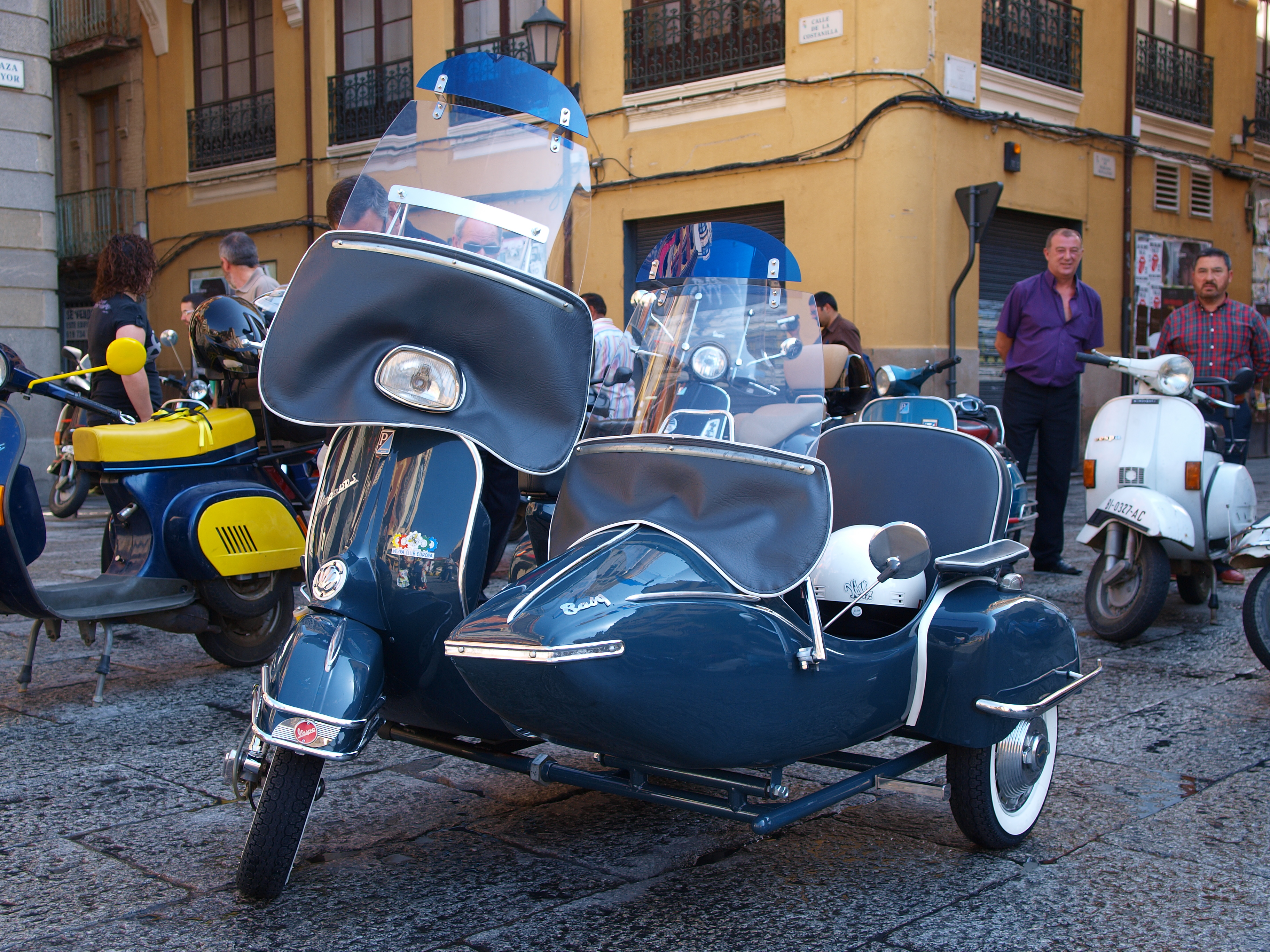 A Vespa equipped with side car and windshield, at exhibition in the spanish town of Zamora (2010)